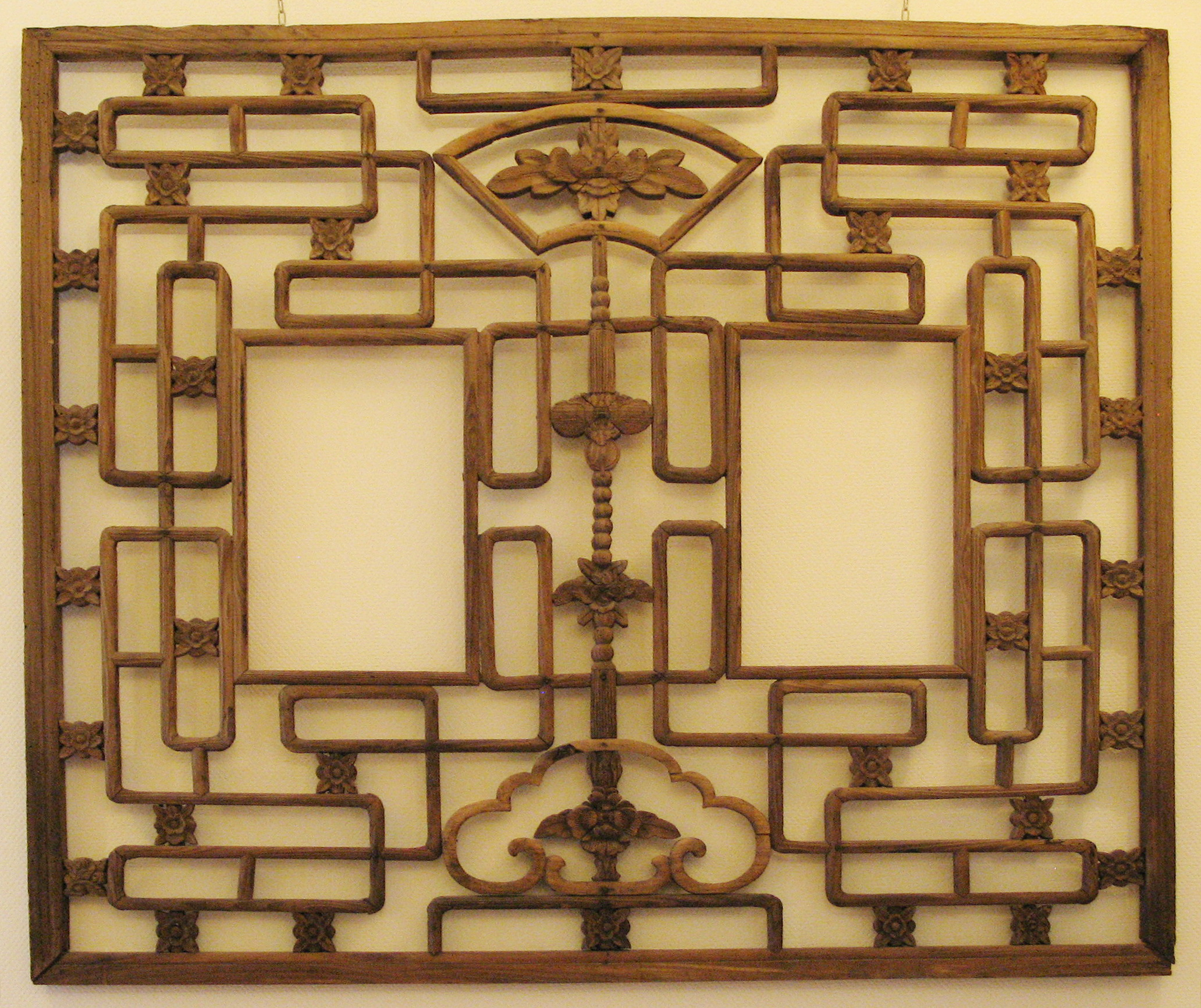 Chinese wooden lattice with ornamental structure